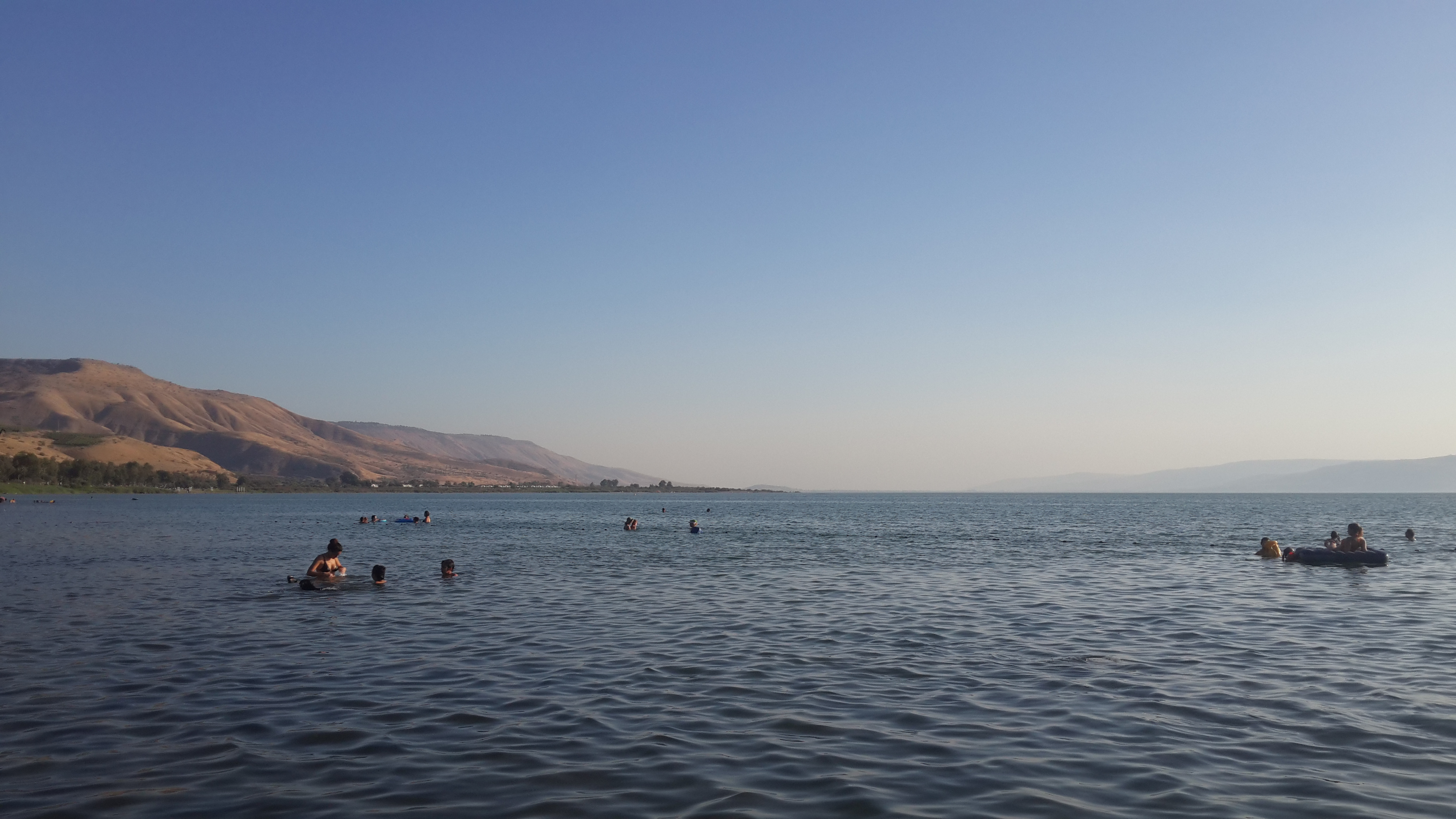 Duga beach on Kinneret lake